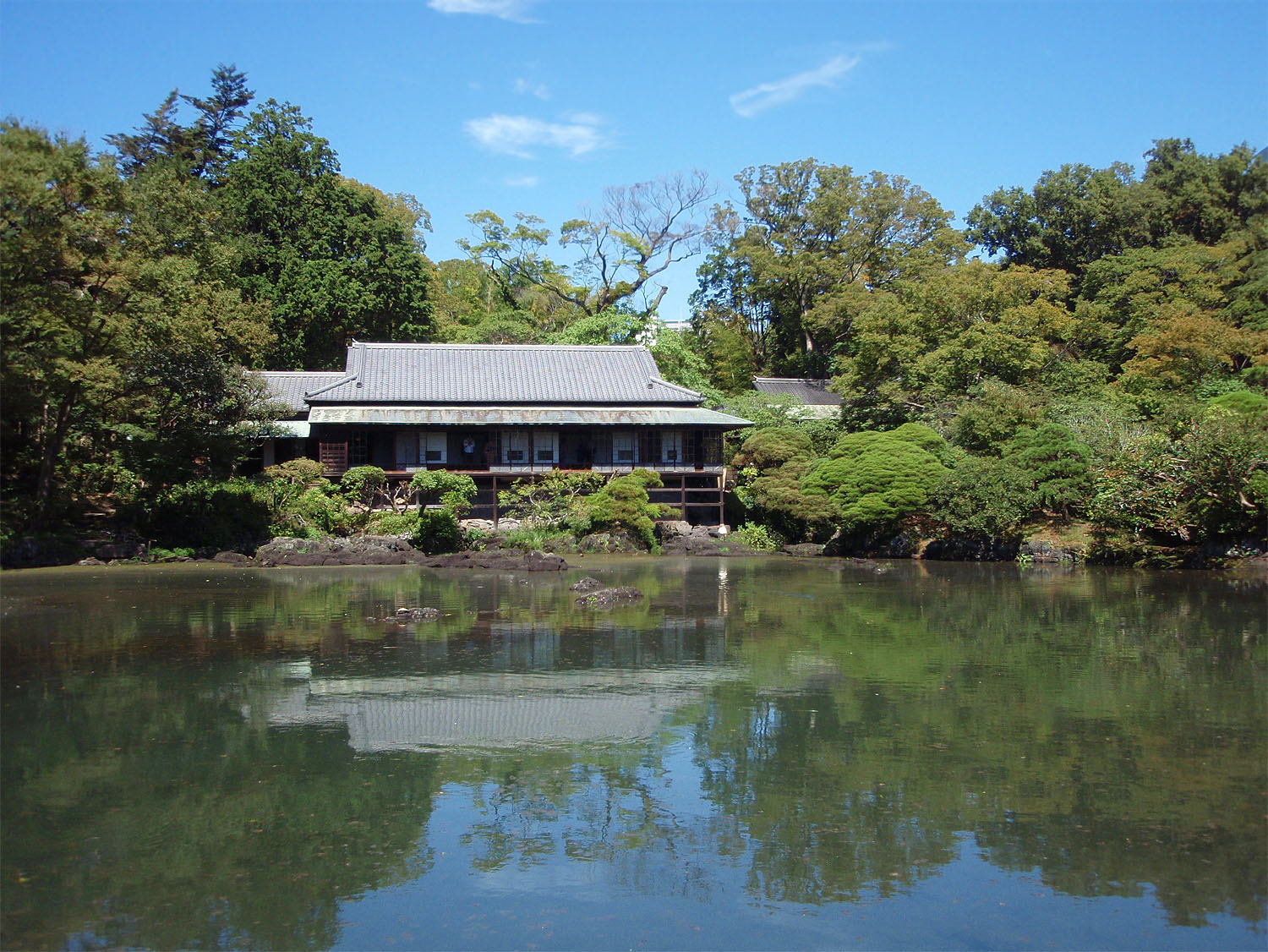 Rakujukan and Kohamagaike Pond at Rakujuen in Mishima, Shizuoka Prefecture, Japan.